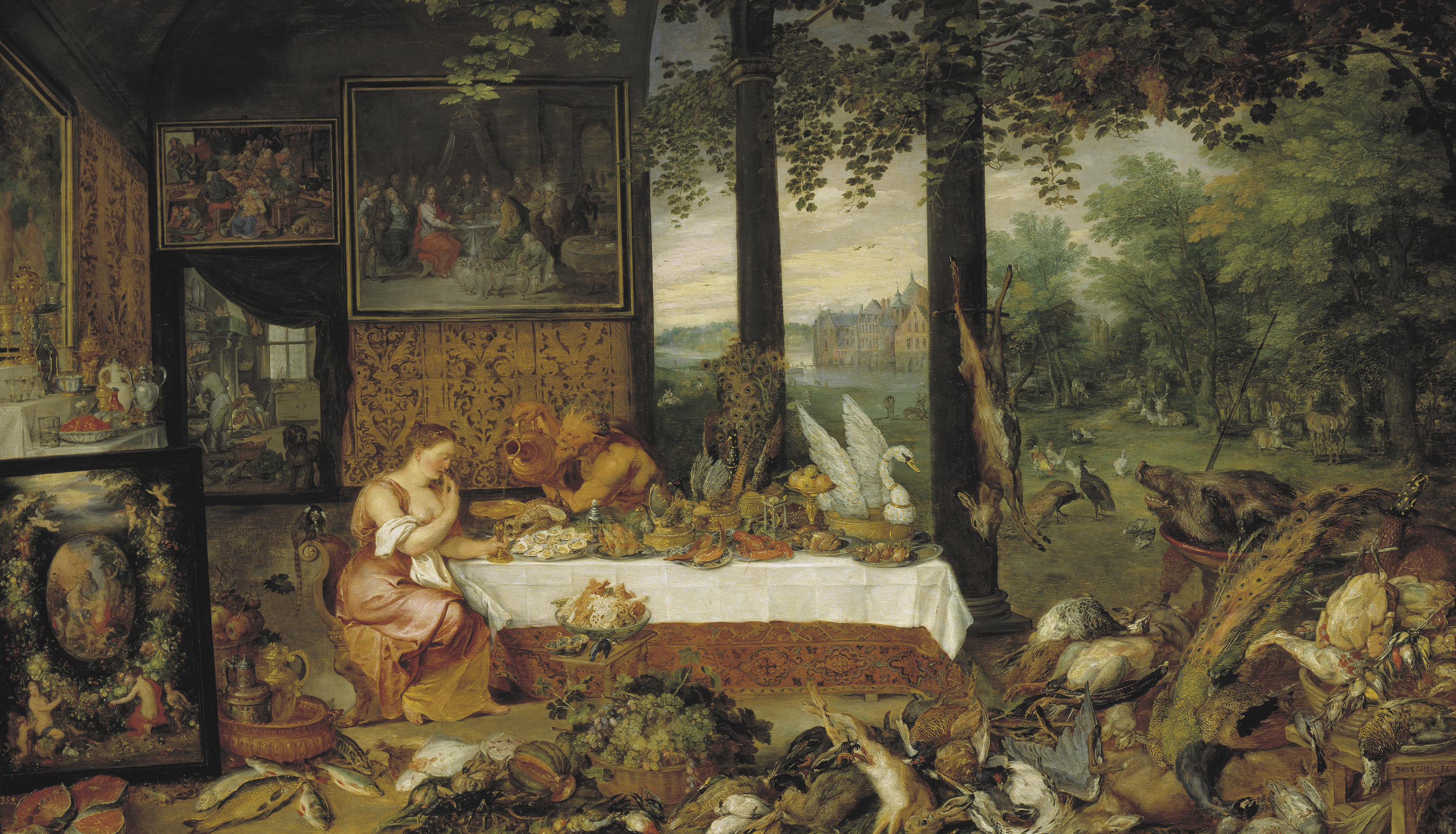 Taste, Sense of Taste or Allegory of Taste